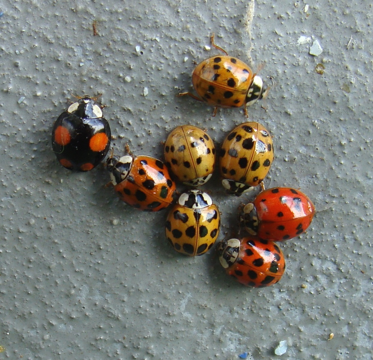 Different imagines of Harmonia axyridis on my balcony.